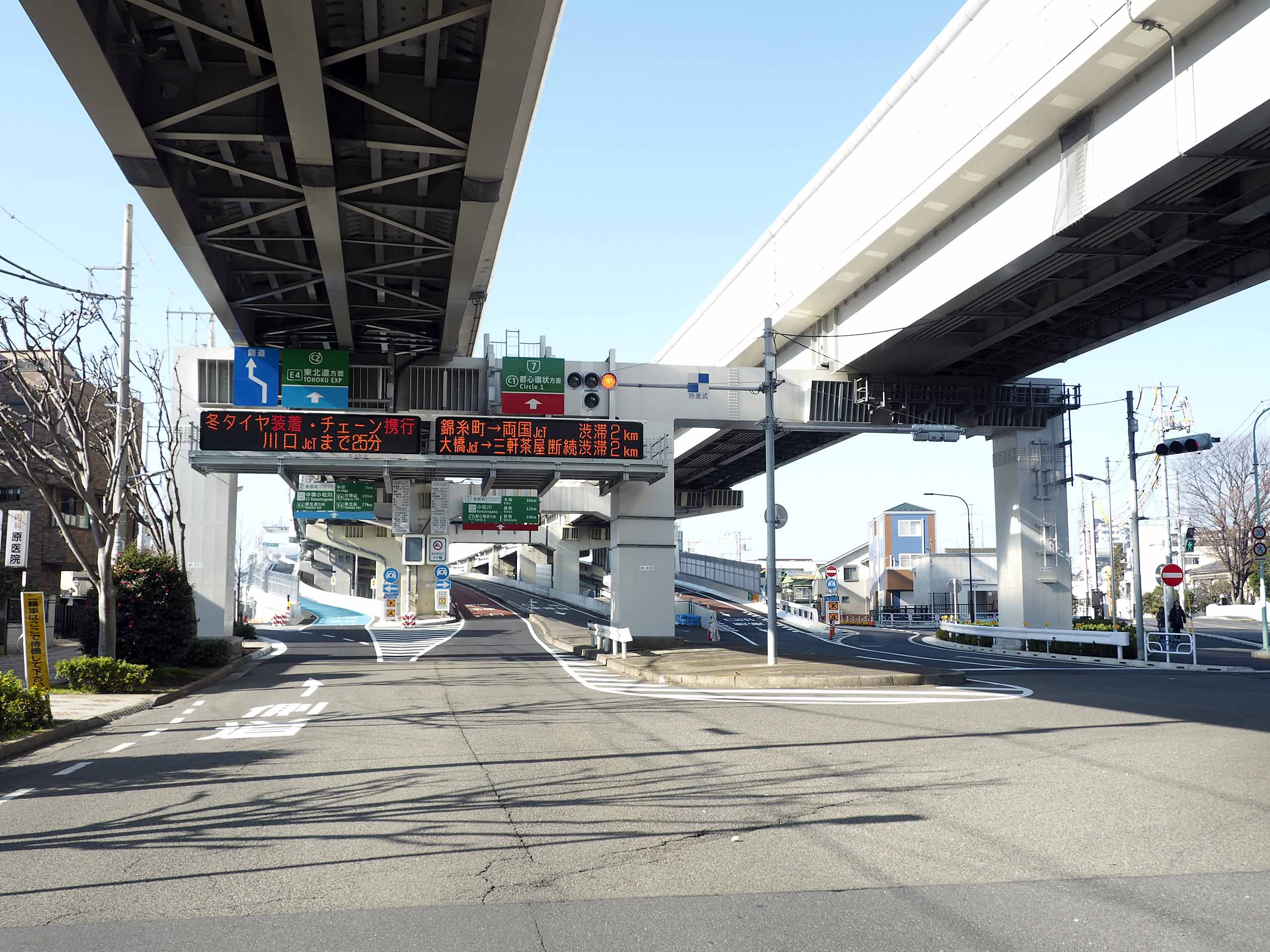 Metropolitan Expressway Komatsugawa Entrance.